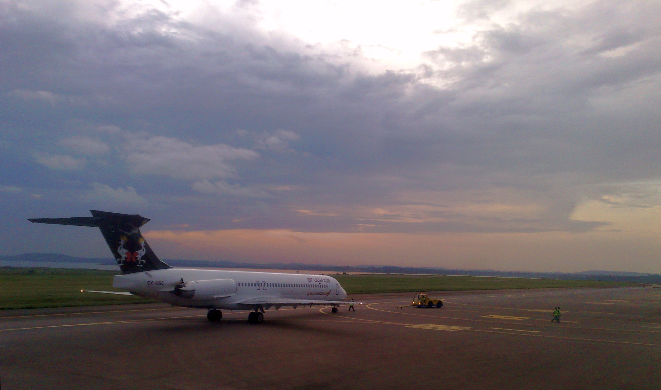 Air Uganda MD-80 at Entebbe International Airport.